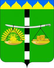 Coat of arms of Beisugskoye municipality, Vyselki Rayon, Krasnodar Krai, Russia.